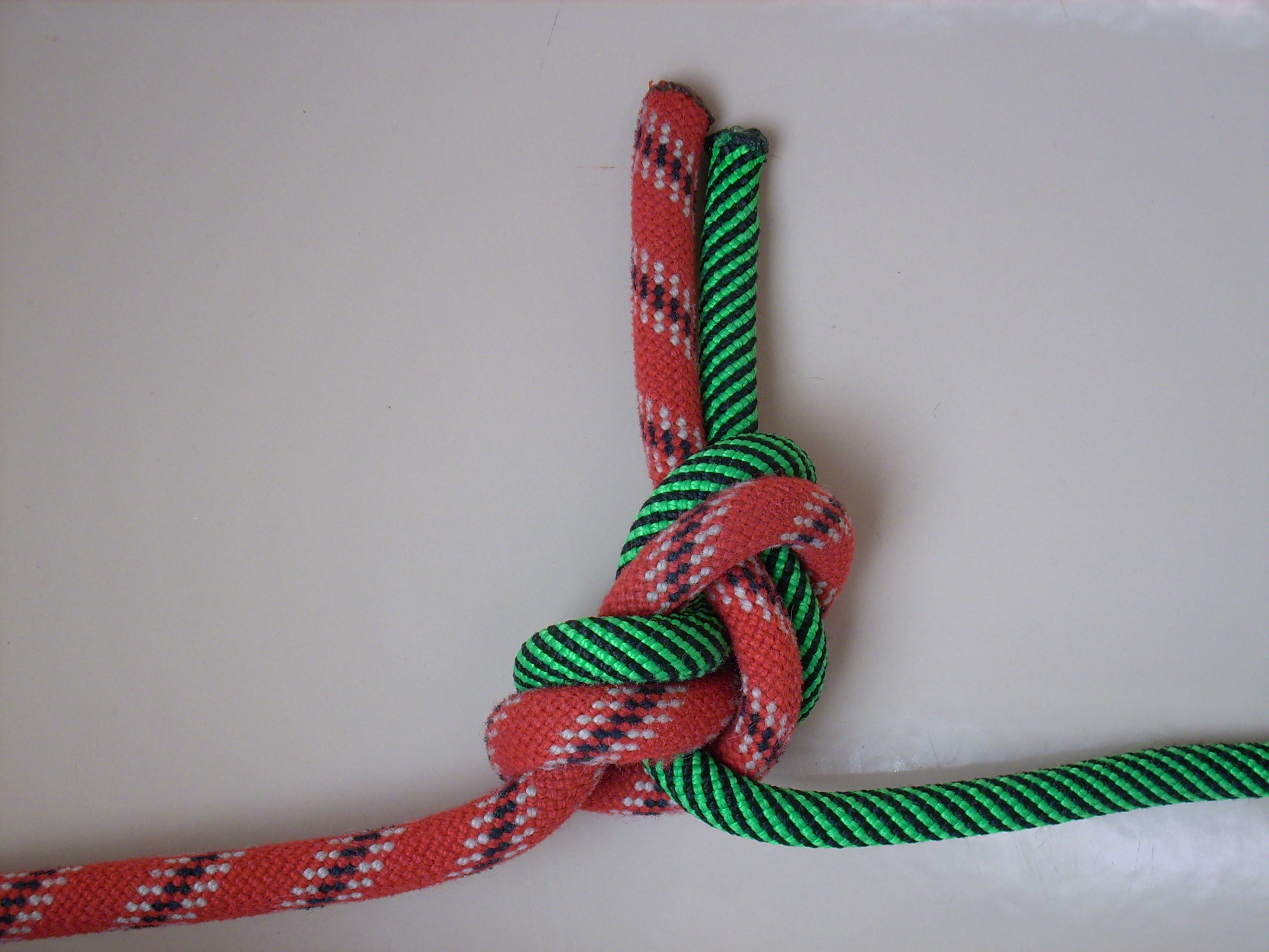 An offset figure-eight bend, an unsafe knot that can capsize under load